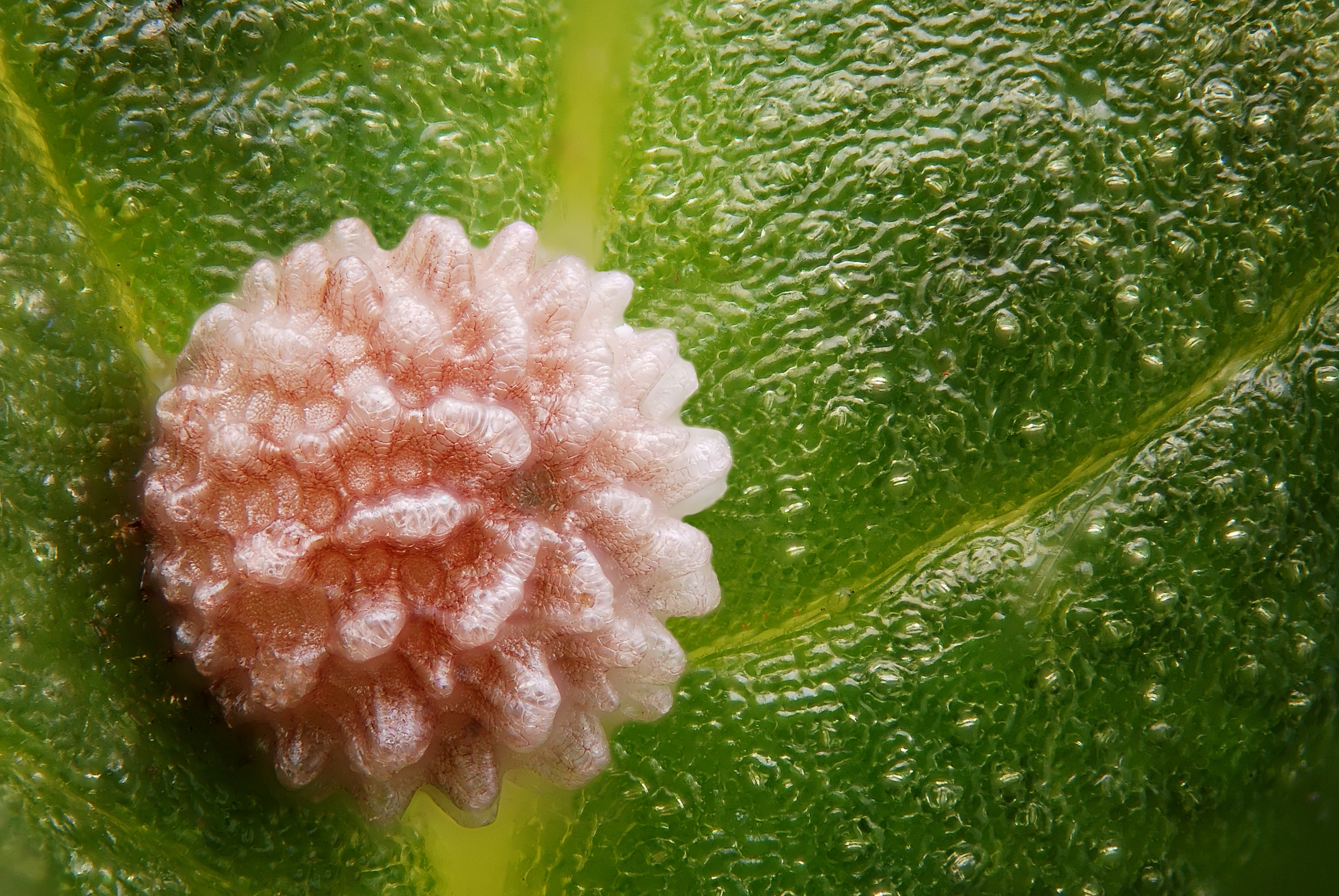 Egg of the butterfly Carcharodus alceae (Hesperidae) on a leaf of its host plant Malva sp. Scale : egg width = 0.8 mm Technical settings : - focus stack of 74 images - microscope objective (Nikon achromatic 10x 160/0.25) on bellow (160 mm extension)